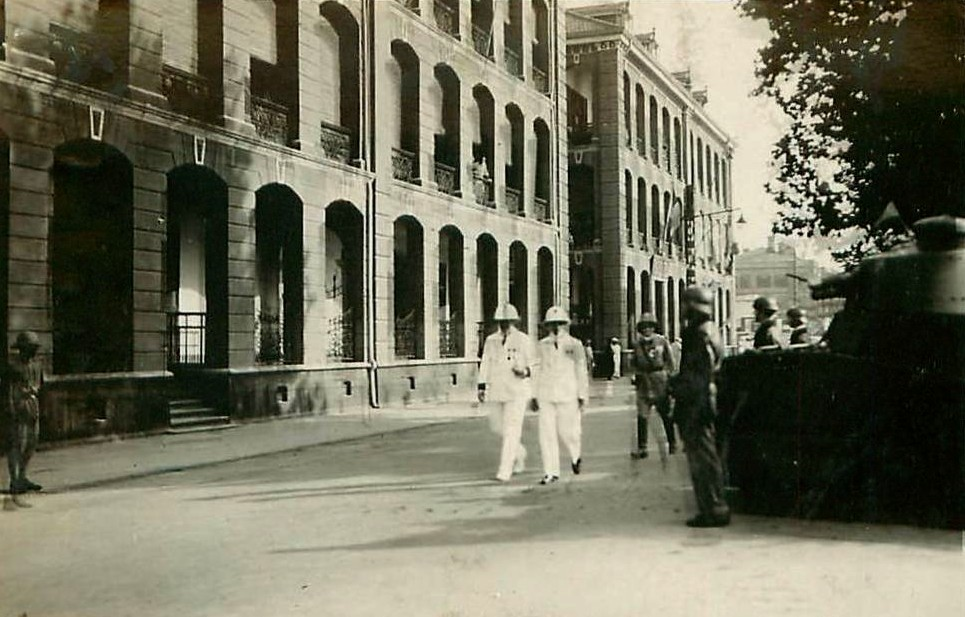 Bastille Day ceremonies in the French concession of Hankou (Hankow, Hankéou), 1932. After the revolutionary events of 1927, only the French and Japanese concessions remained.